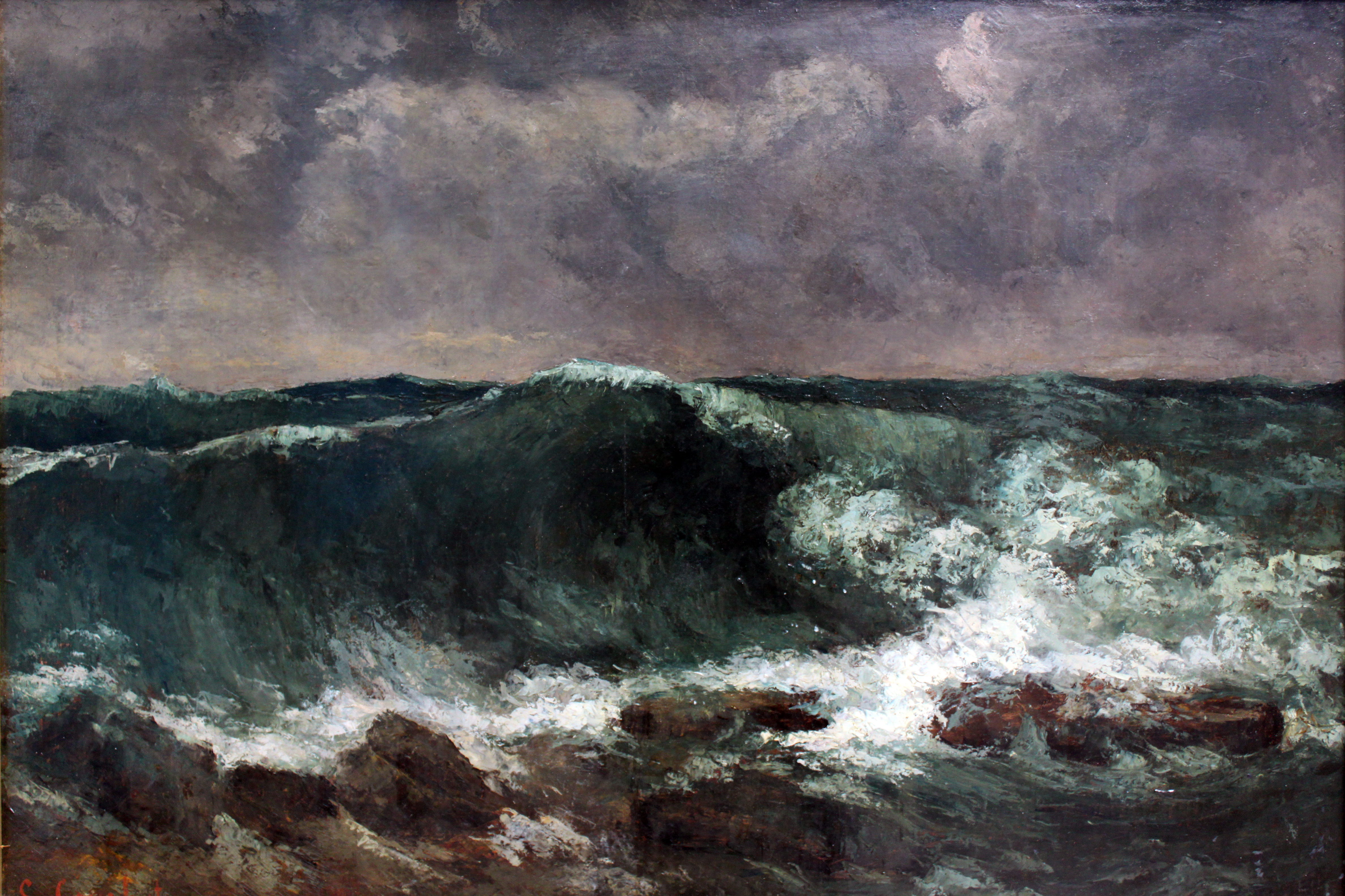 The Wave